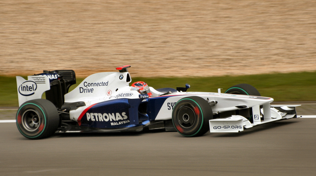 Robert Kubica driving for BMW Sauber at the 2009 German Grand Prix.